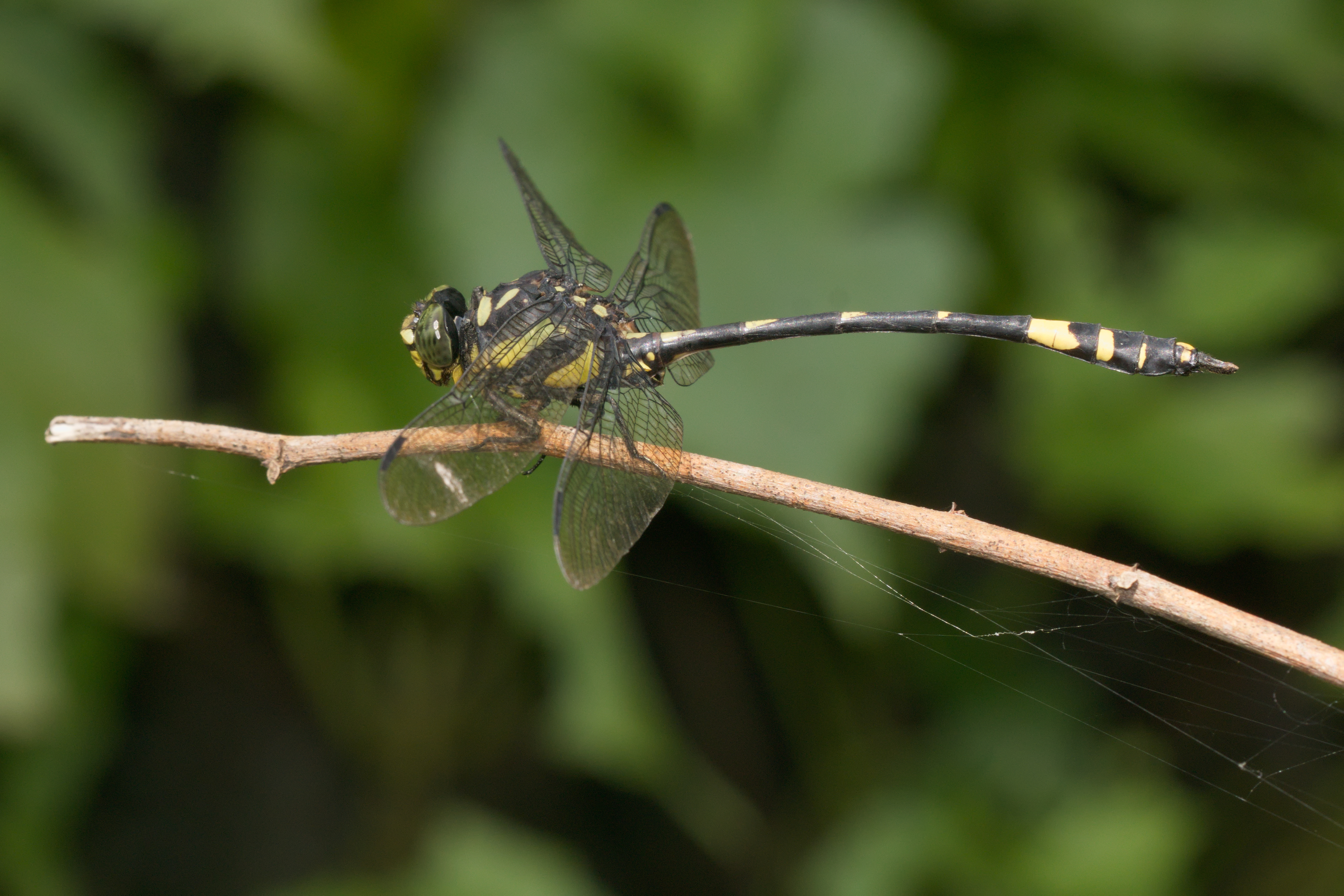 Gomphidia kodaguensis, Southern River Clubtail, is known only from the Western Ghats in India, with records from Karnataka (Fraser 1923, 1934; Laidlaw 1930) and Kerala (Fraser 1934). Very little has been recorded on the habitat or ecology of this species, but it is evidently a species of streams and rivers, and presumably requires some forest for its survival. It appears to be a species of hilly and mountainous areas.